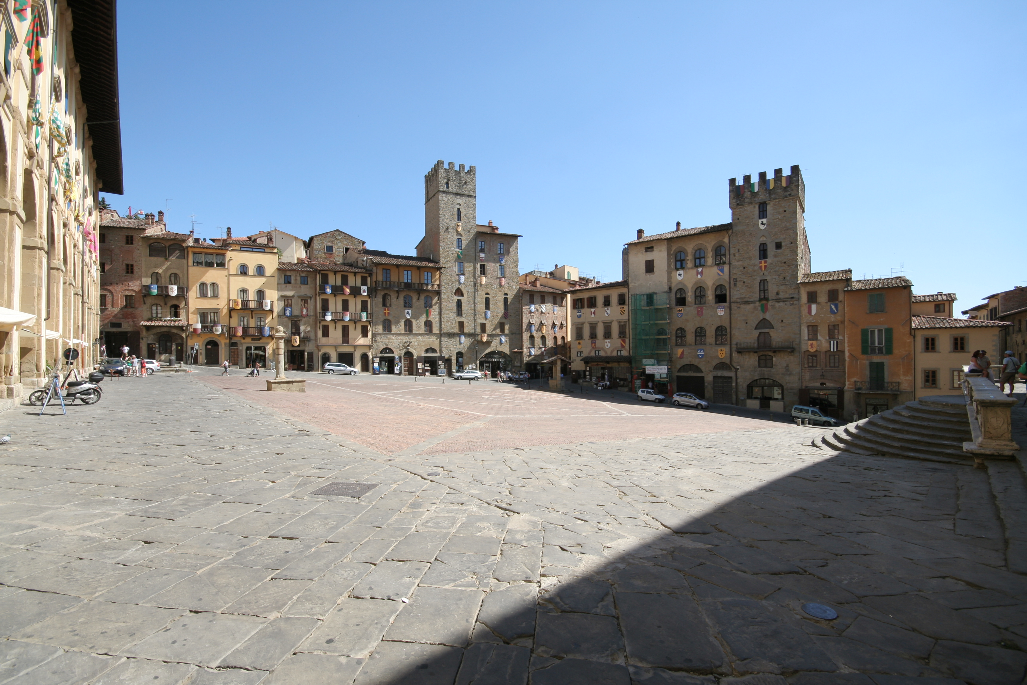 View of Piazza Grande in Arezzo, Tuscany (Italy)